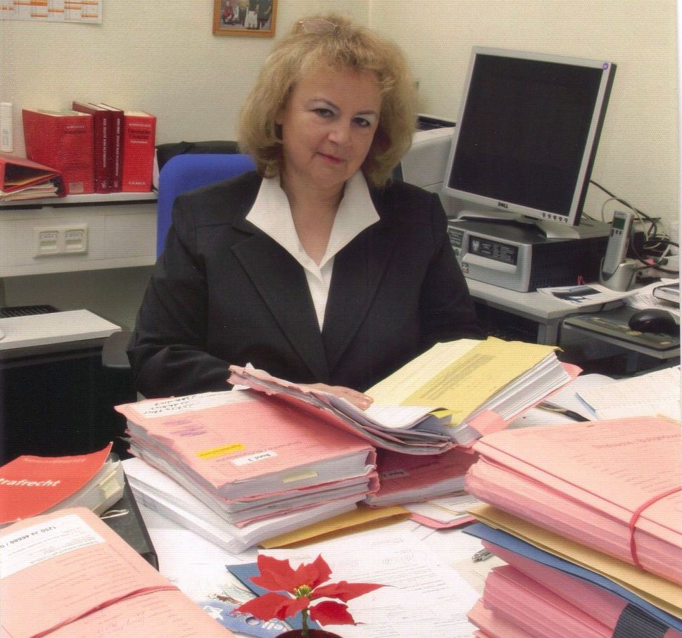 vhasseln 2008.jpg